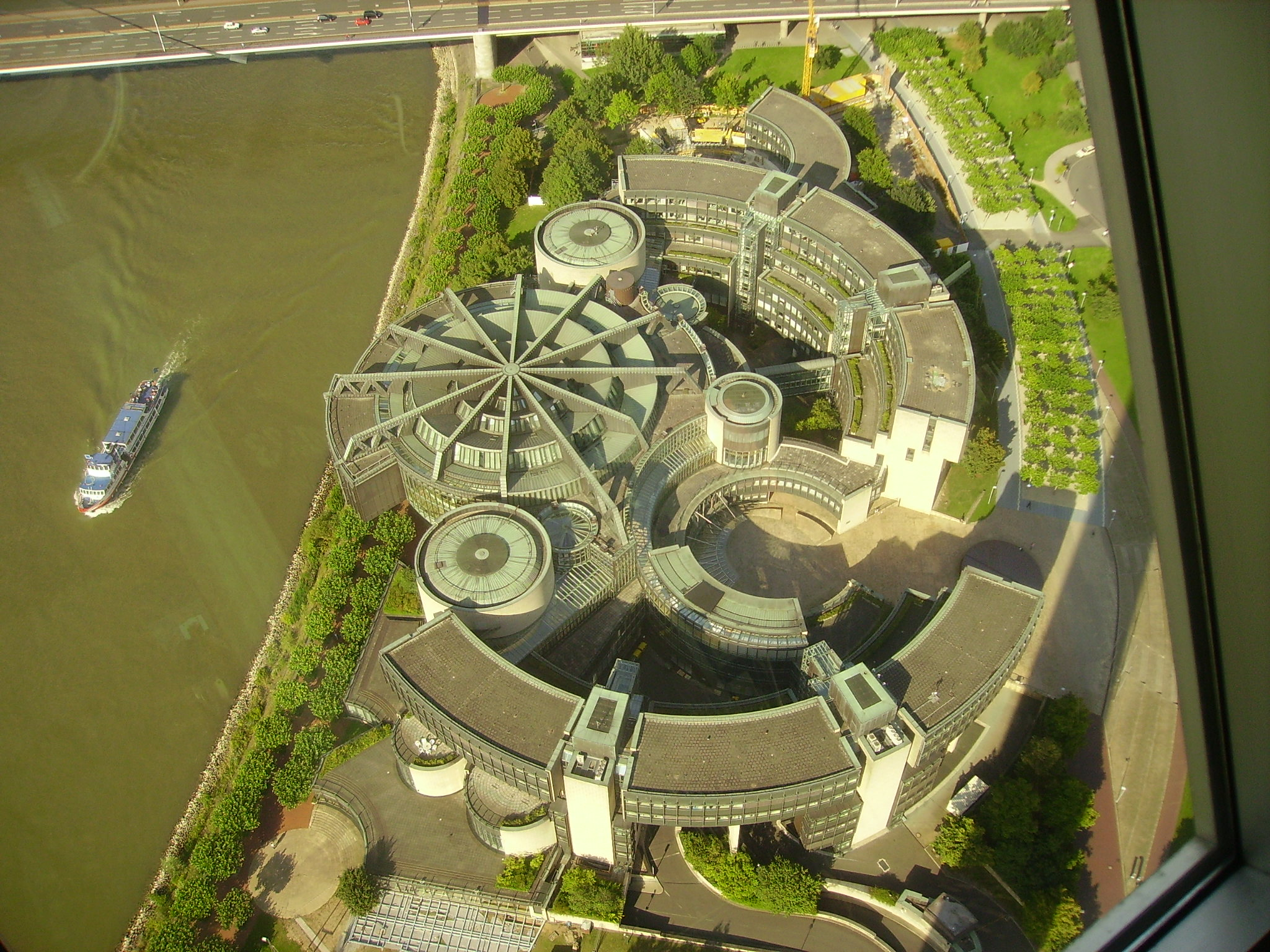 View from the Rhine Tower to the Landtag of North Rhine-Westphalia, Düsseldorf